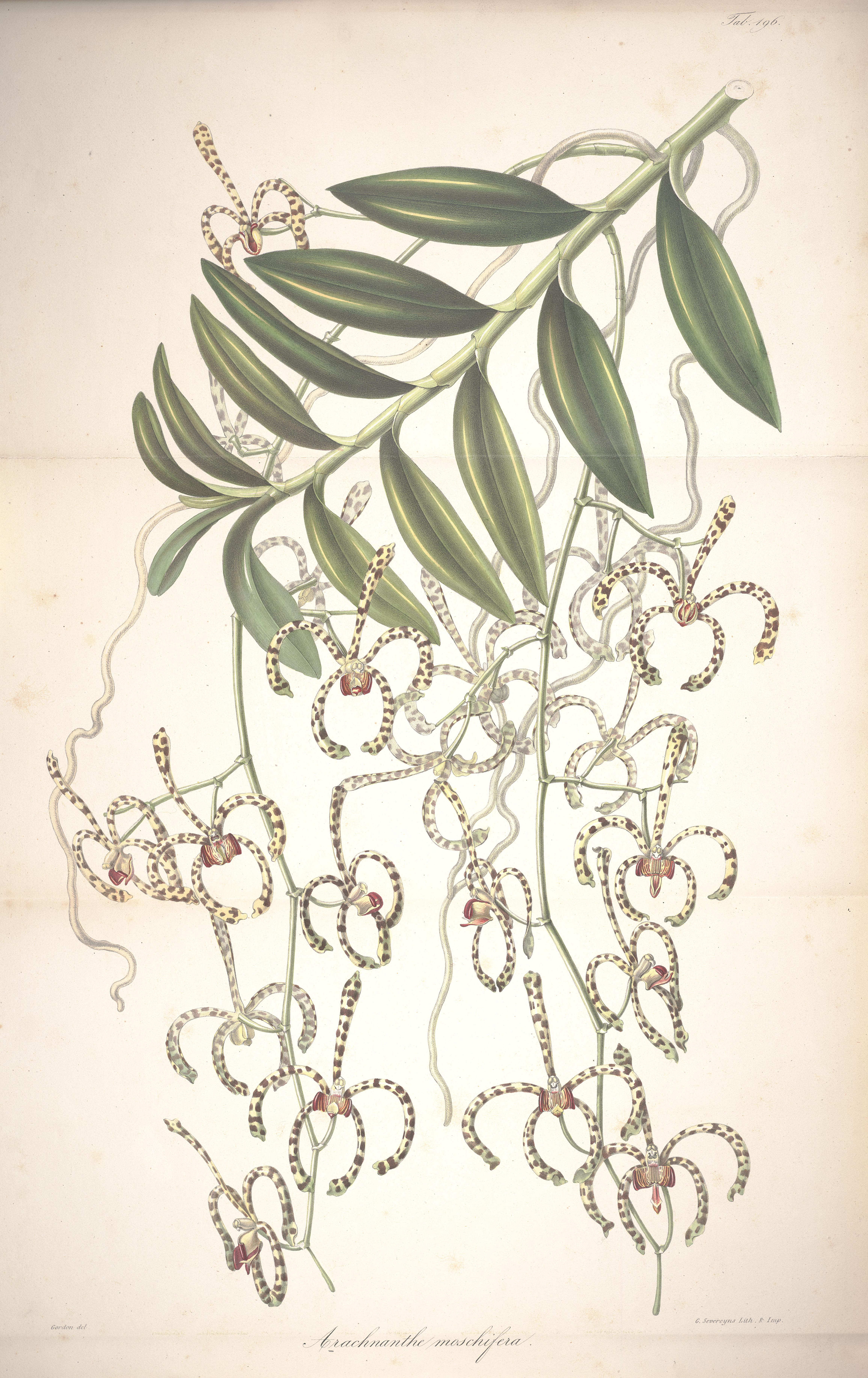 Arachnis flos-aeris as synoynm Arachnanthe moschifera